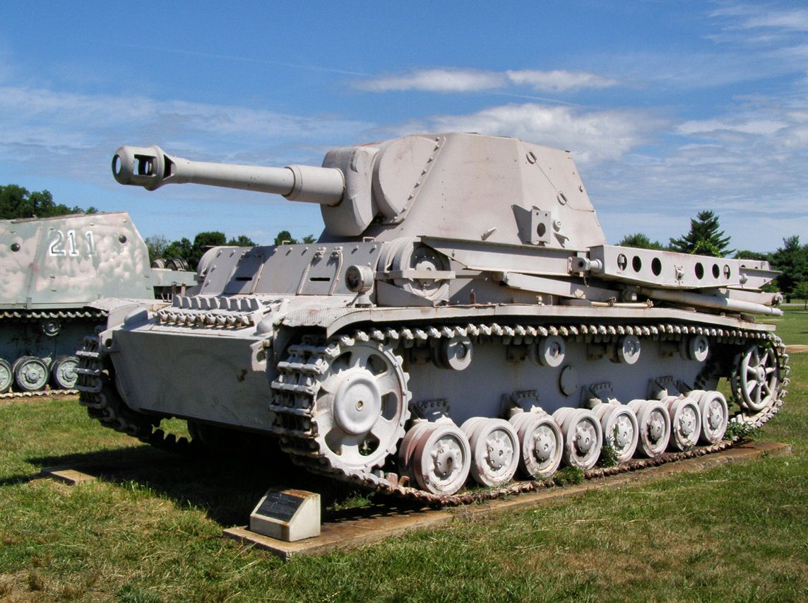 Heuschrecke 10 example at the Aberdeen Tank Museum.